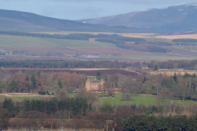 Careston Castle and surrounding area Picture taken, looking north, from Aberlemno / Brechin Road at its junction with Hillbarns Farm road. While driving along the Castle stood out in the brilliant sunshine, hence the photograph.